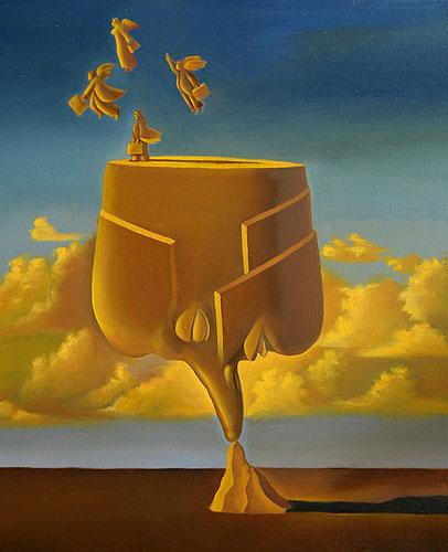 One of the most representative Ruben Cukier works